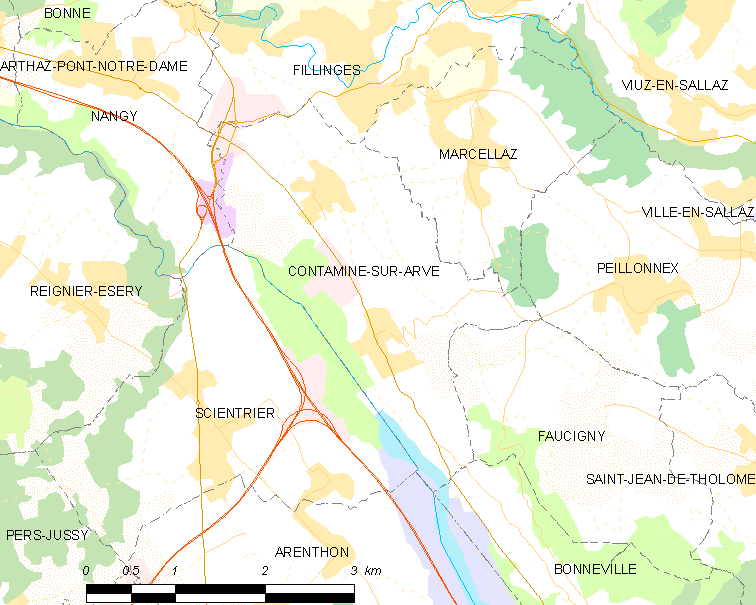 Map of French municipality Contamine-sur-Arve